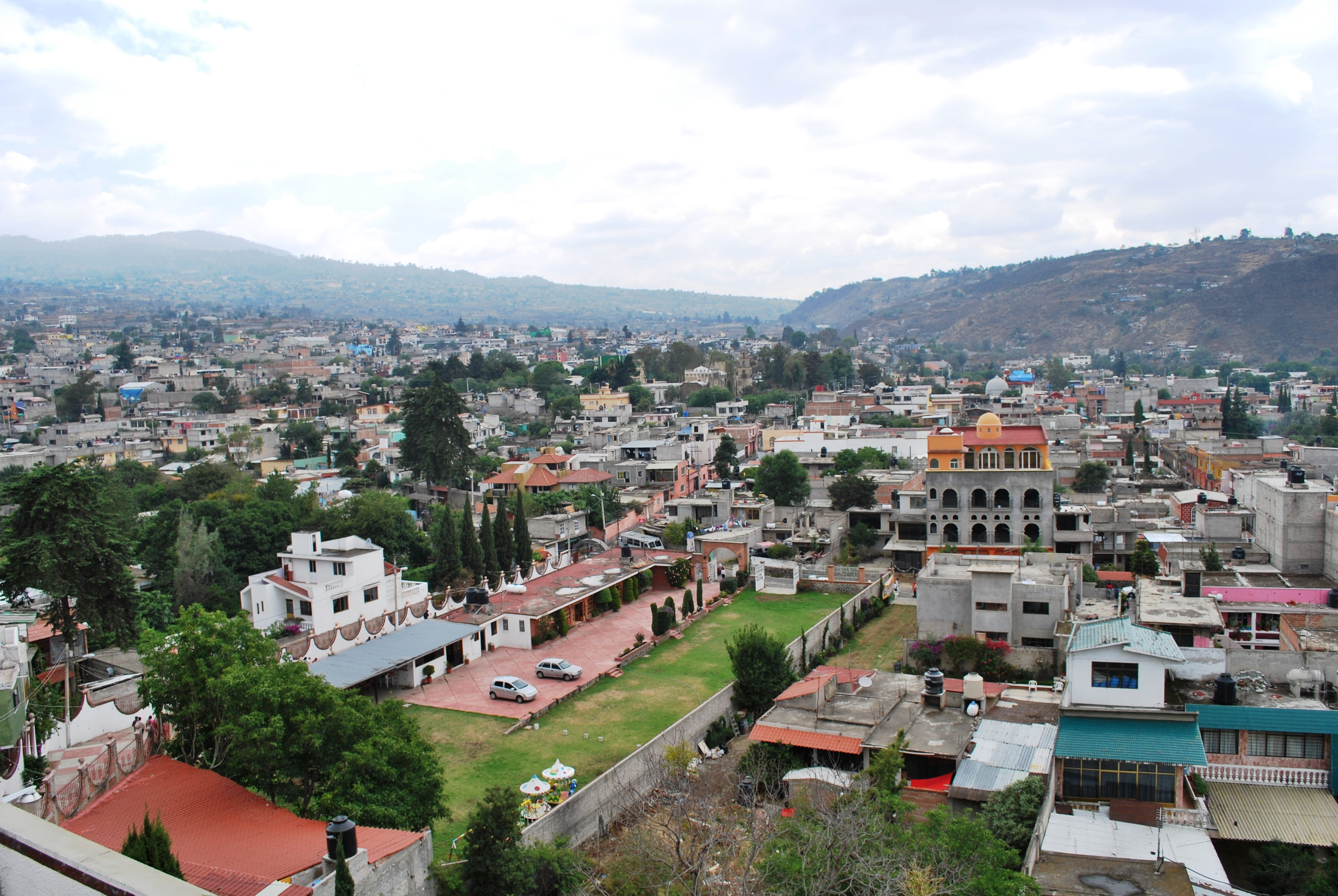 The community of San Pedro Atocpan in the borough of Milpa Alta in the Federal District of Mexico City as viewed from Señor de las Misericordias Church